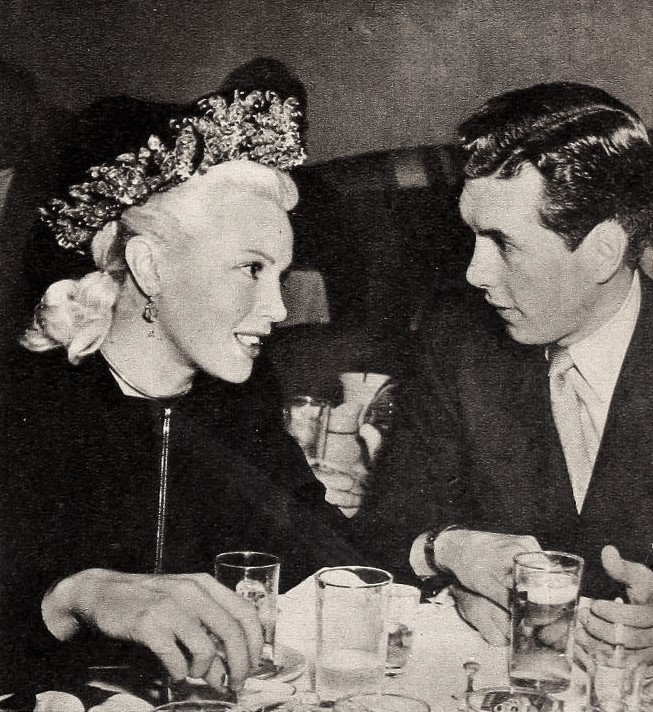 Lana Turner and Bob Hutton dining at The Troc, 1946